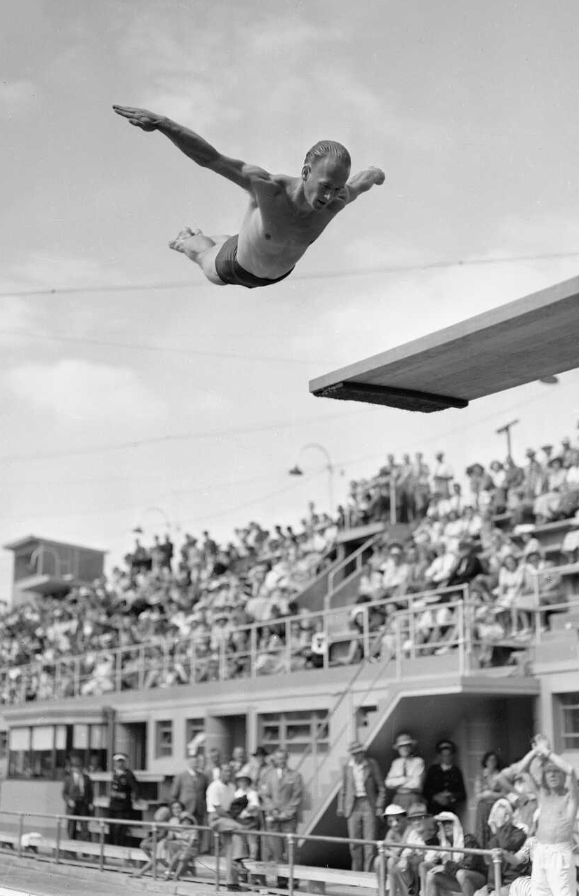 View of diver Peter Healey mid-air above the diving board with arms spread during a dive at the Olympic Pool in Newmarket, Auckland. Photograph taken in February 1950 at the British Empire Games by an Evening Post photographer.